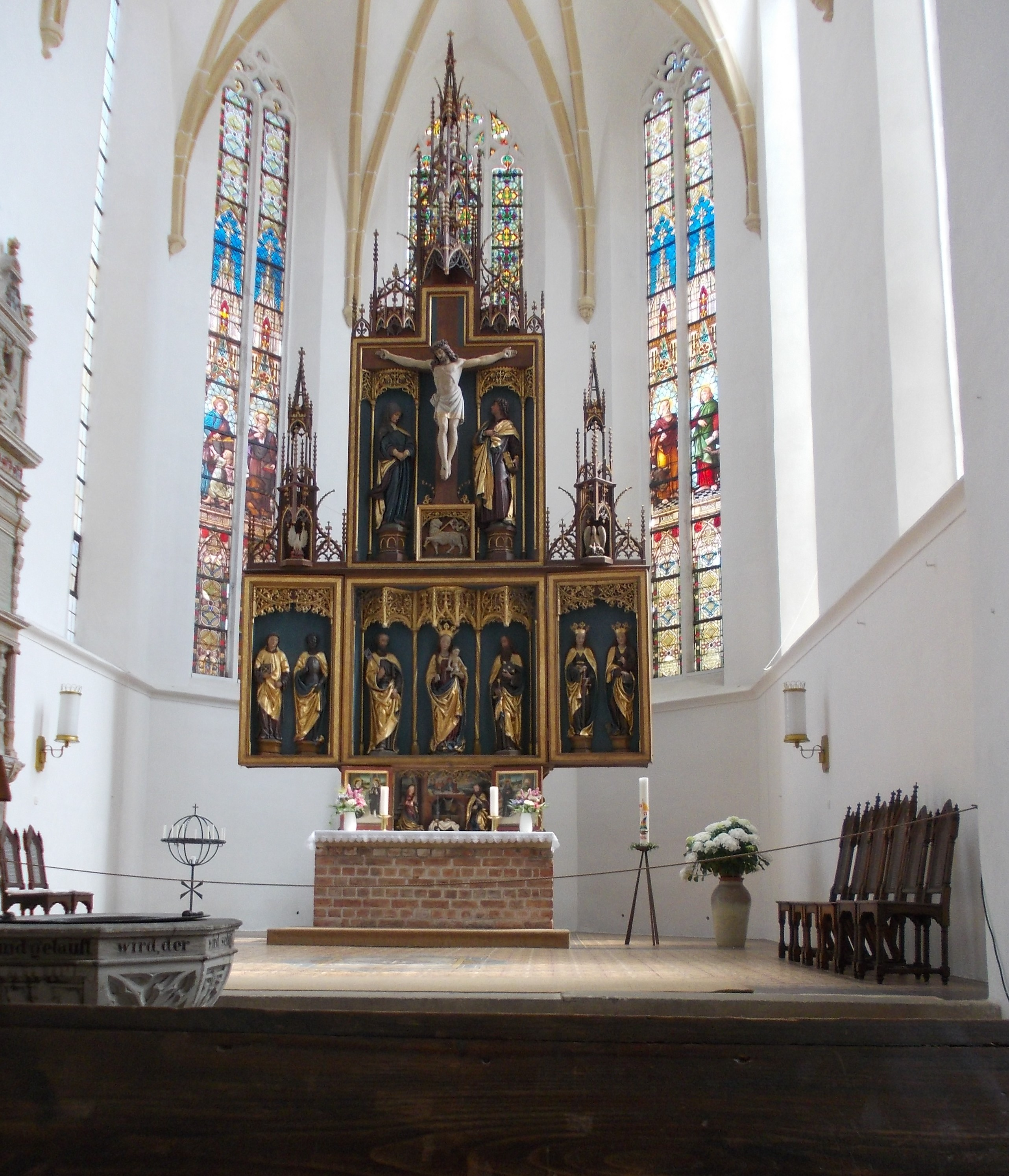 Saints Peter and Paul Church in Delitzsch (Nordsachsen district, Saxony)